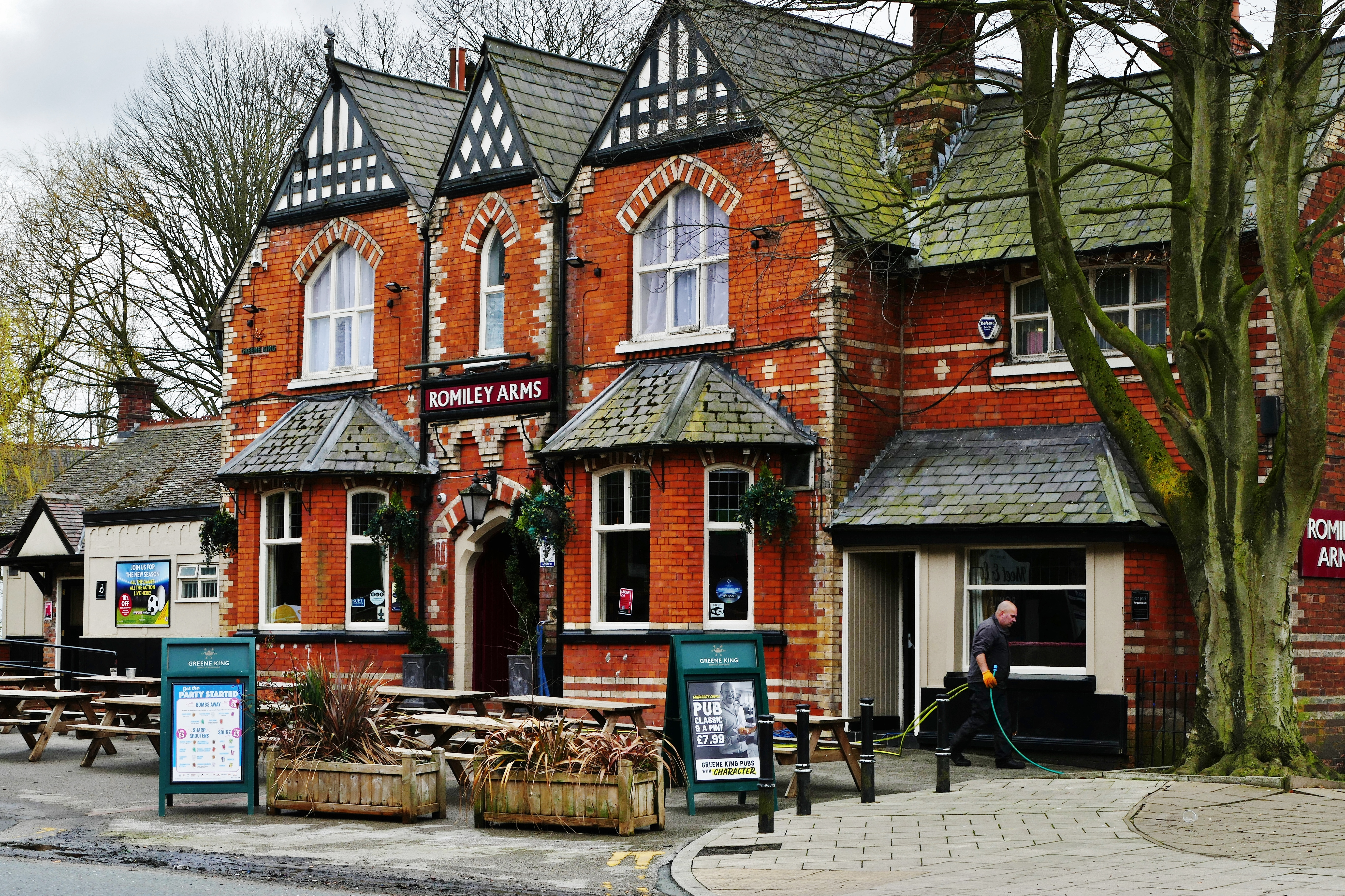 Romiley Arms - opposite the station